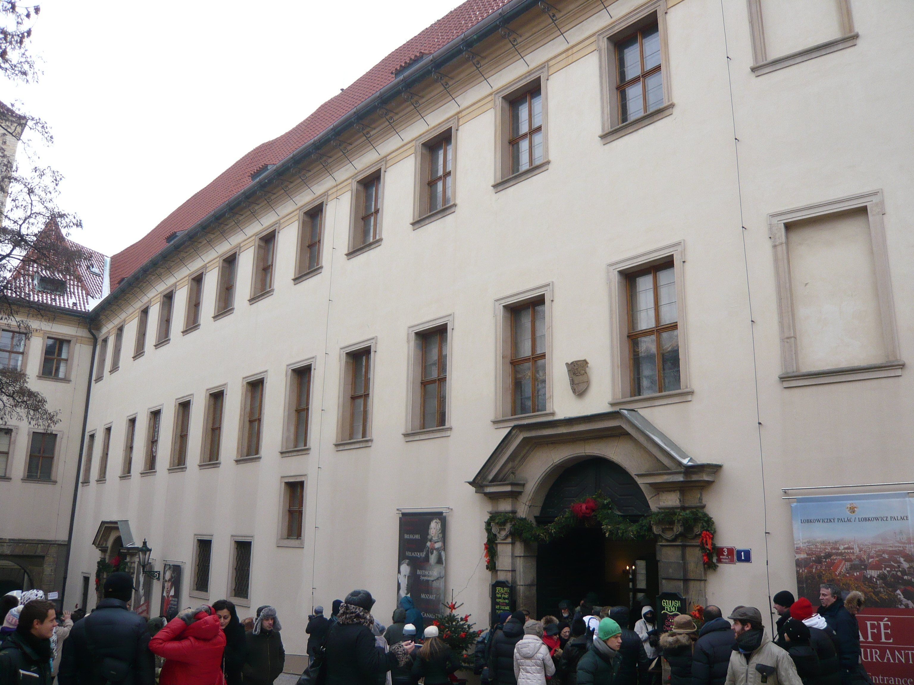 Picture of the facade of the Lobkowicz Palace in the Prague Castle, Czech Republic